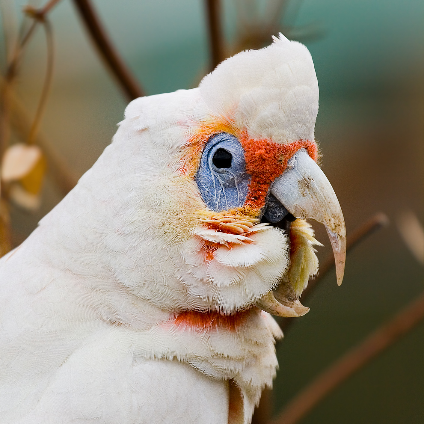 The long white beak of a Long-billed Corella (Cacatua (Licmetis) tenuirostris) is used to dig for roots and seeds.